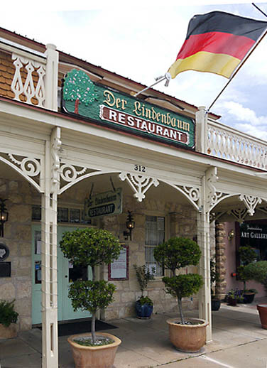 Der LindenBaum restaurant in Wahrmund Millinery and Moellendorf-Dietz Bakery building, 312 East Main Street, Fredericksburg, Texas